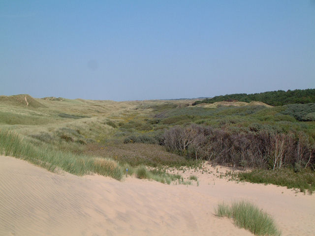 Foredunes at Formby. View northwest across the foredunes from the southern edge of the square on a scorching hot July day.